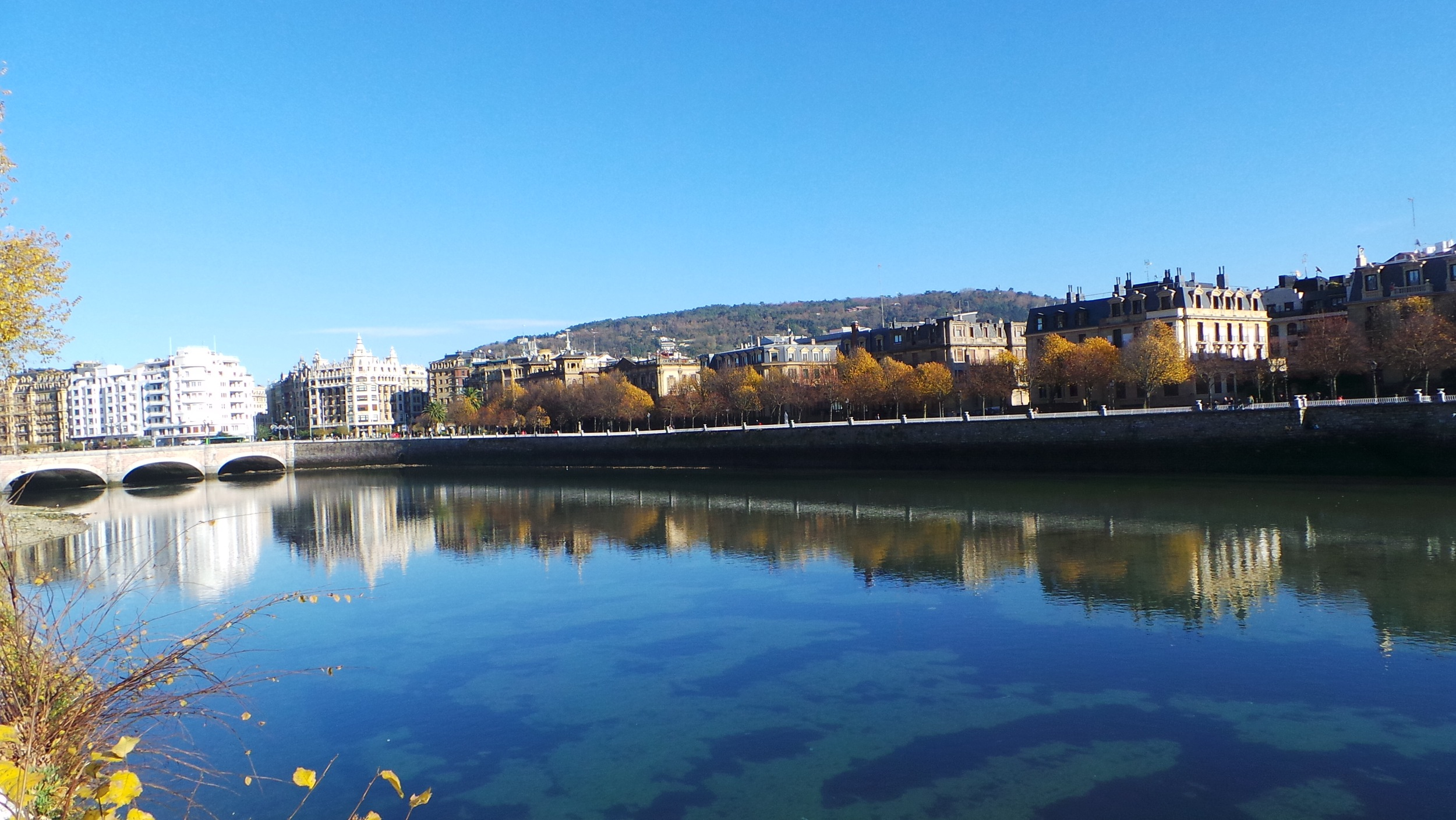 Urumea river in Donostia.